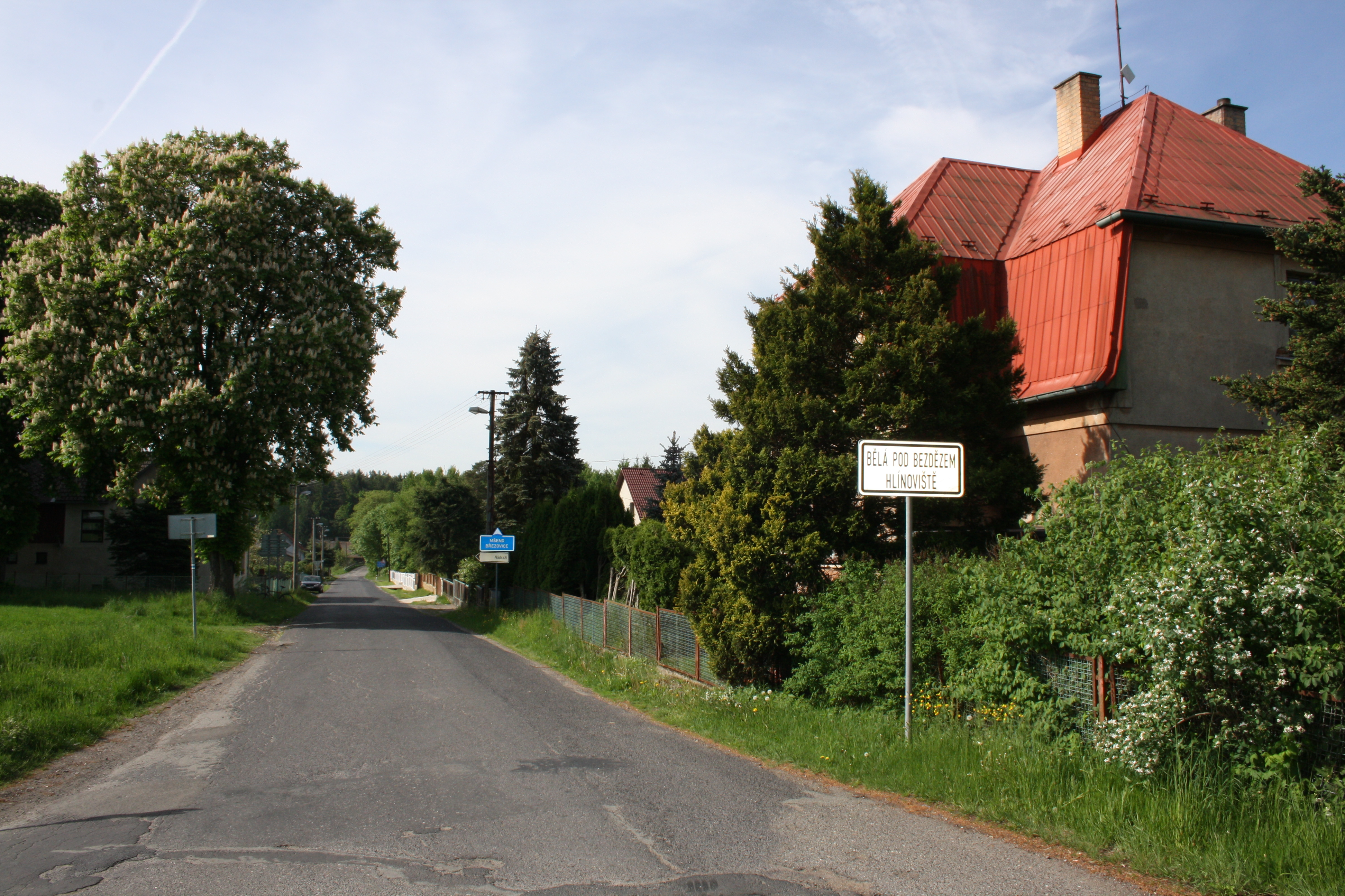 Hlínoviště, Mladá Boleslav District, Central Bohemian Region, Czech Republic This photograph was taken with a DSLR from WMCZ's Camera grant. Project: Fotíme Česko